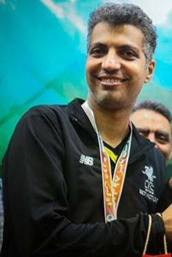 Adel Ferdousipour